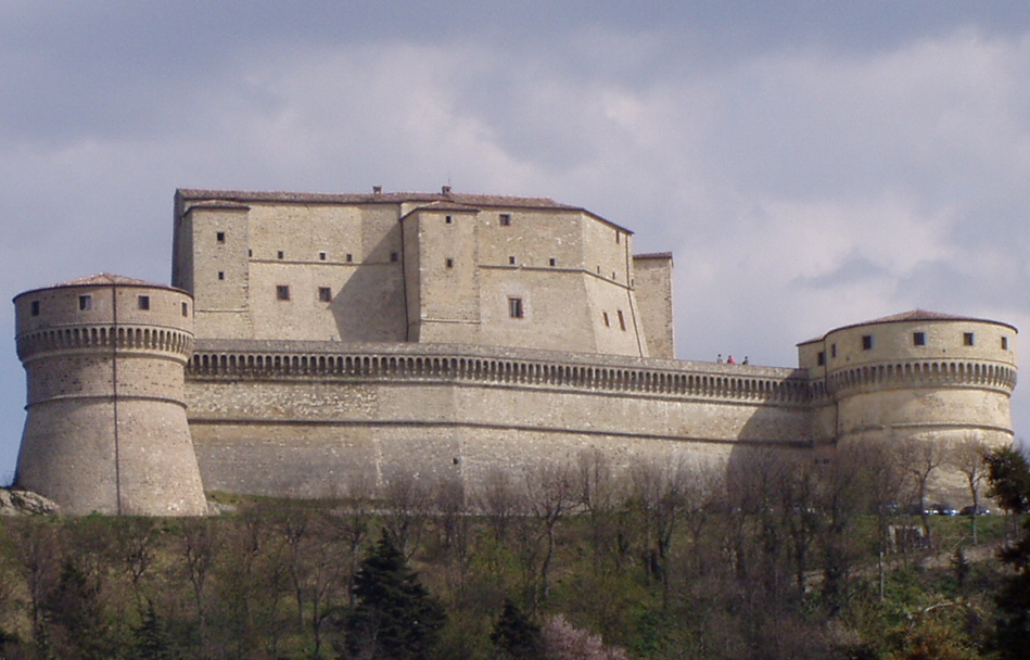 Castle of San Leo in Emilia-Romagna, Italy (detail)